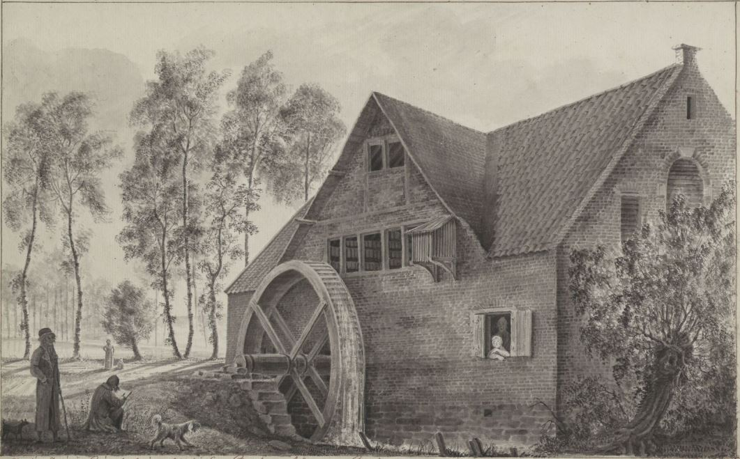 Drawing by Paul Vitzthumb of the paper mill on the road Oudergem-Bosvoorde